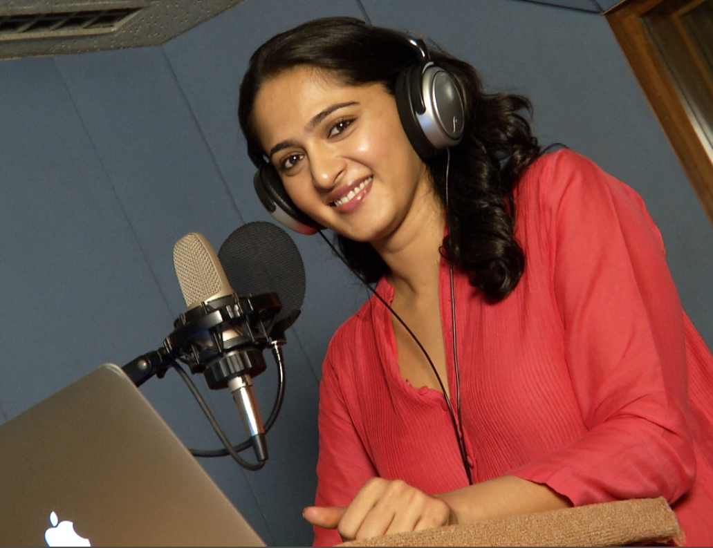 Actress Anushka Shetty records her voice for the TeachAIDS animations at Annapurna Studios in Hyderabad, Andhra Pradesh. She has donated her voice for the Tamil and Telugu language versions of the TeachAIDS materials. Photo credit: TeachAIDS